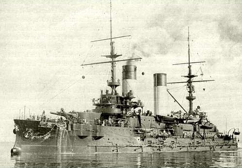 Battleship Orel